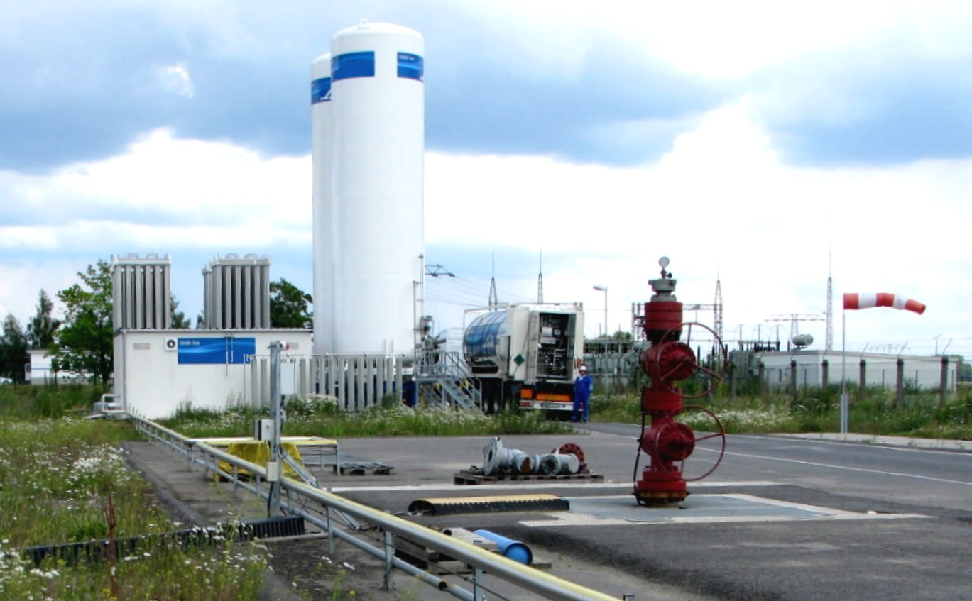 Experimental CO2 storage site at Ketzin, Germany